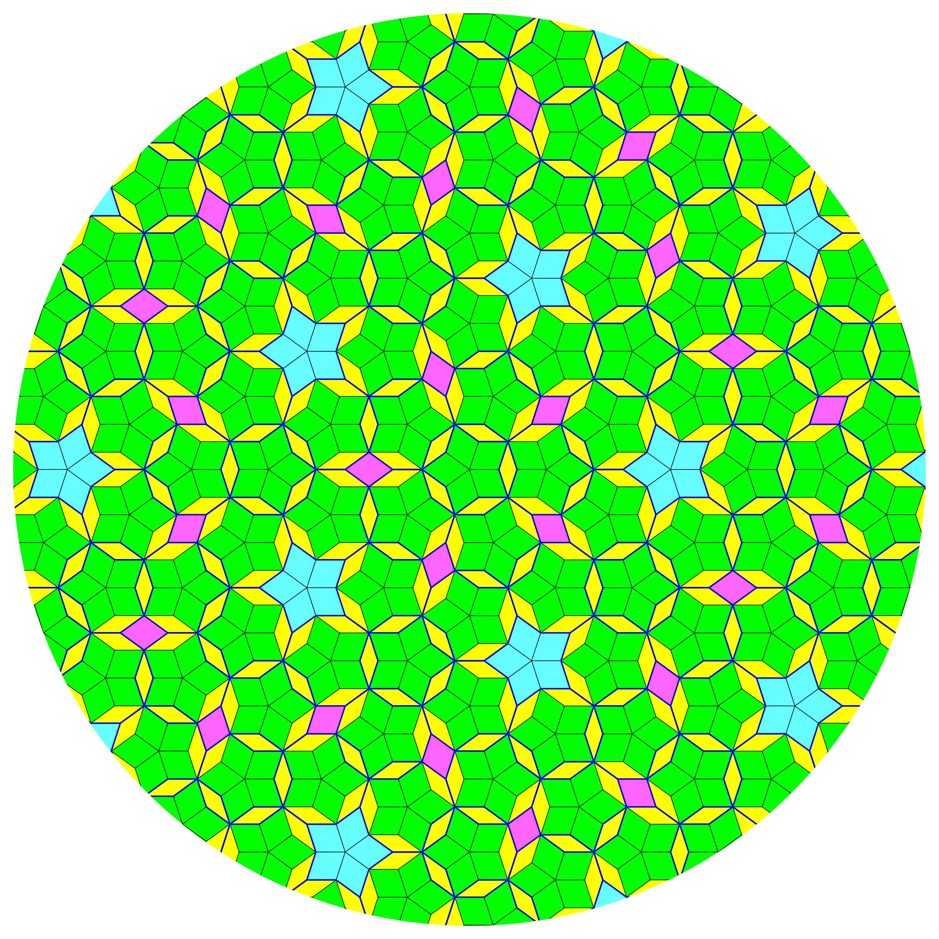 Example of Penrose tiling.